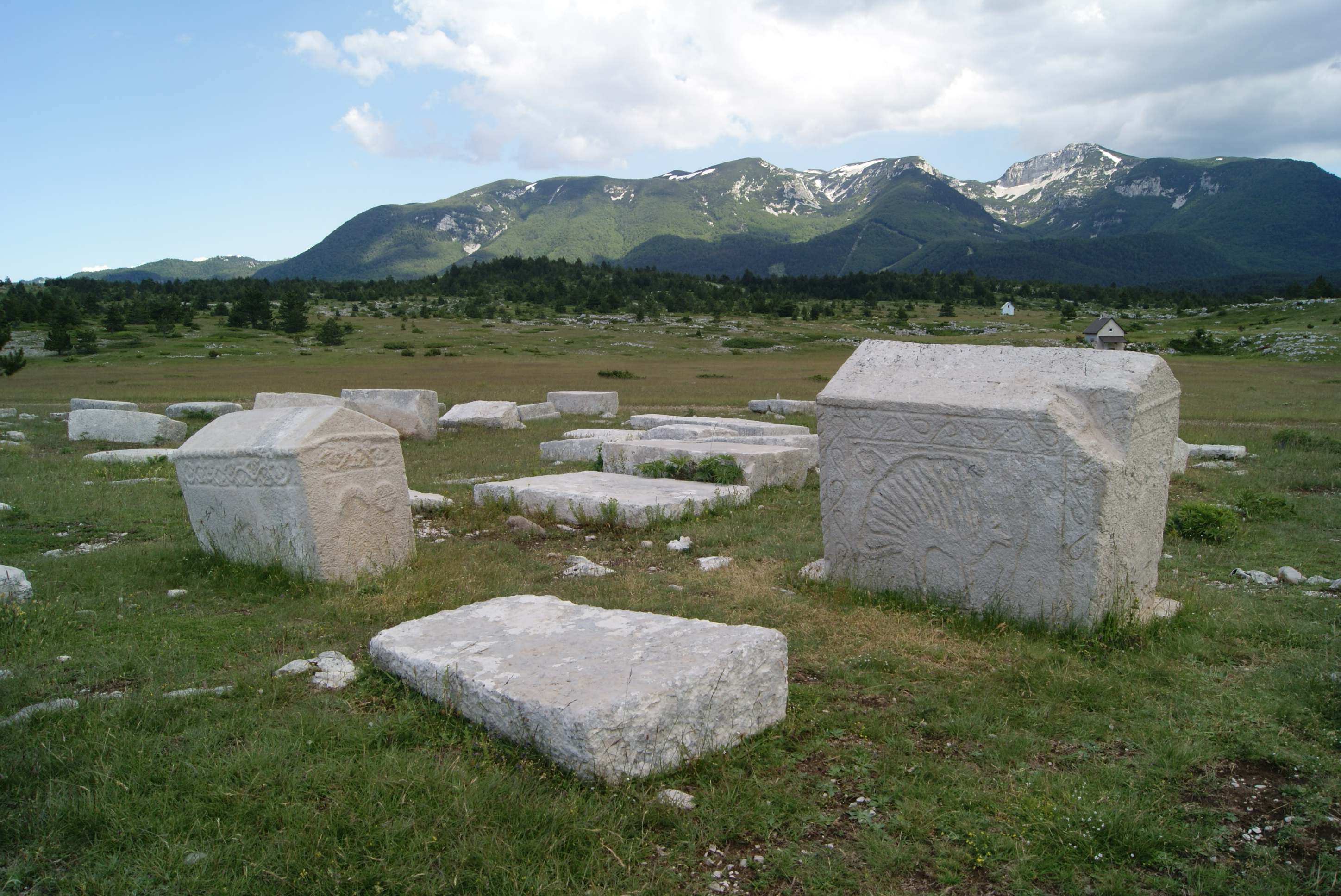 Dugopolje necropolis with prominent highly decorated stećak known as No 11